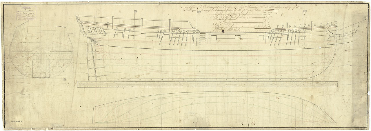 Hazard (1794) Scale: 1:48. Plan showing the body plan, sheer lines, and longitudinal half-breadth for building the Hazard (1794), a 16-gun Ship Sloop with a quarterdeck and forecastle. The ship was being built at Finsbury by Messrs Brindley & Co. Signed by John Henslow [Surveyor of the Navy, 1784-1806] and William Rule [Surveyor of the Navy, 1793-1813]. HAZARD 1794